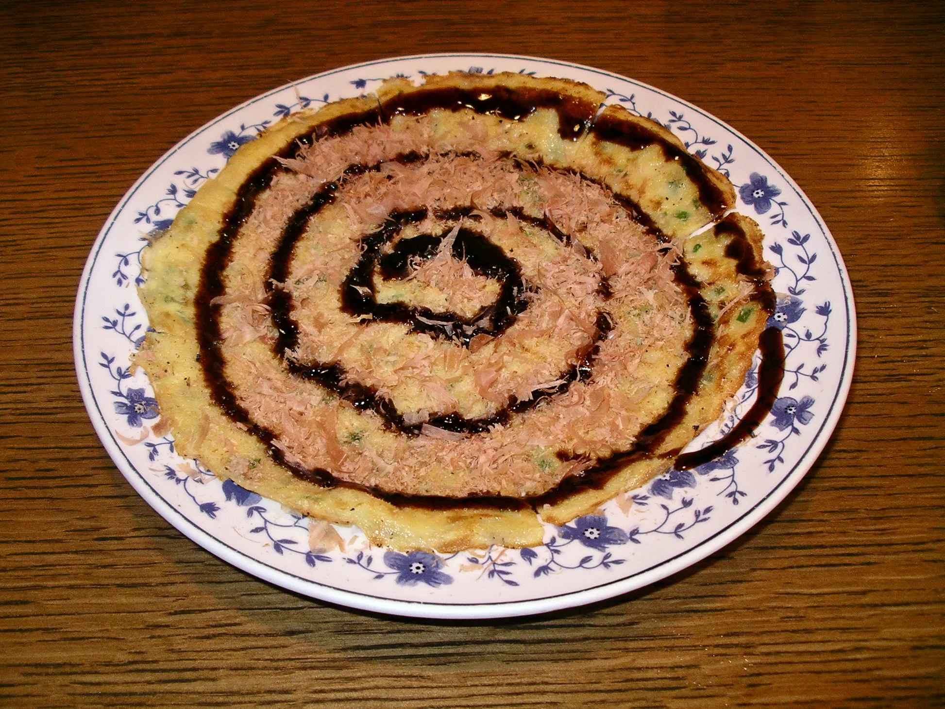 Hirayachi, an Okinawan version of hirayaki (savoury pancake).More: Blue Lotus